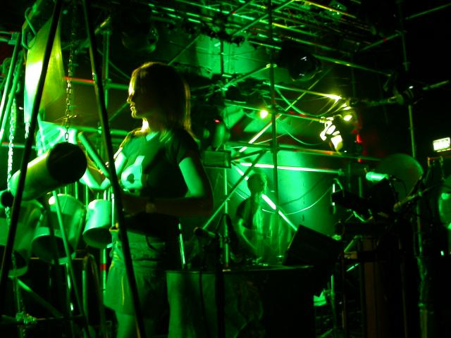 Militia (band) live on stage